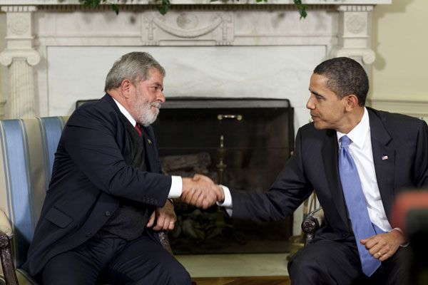 President Barack Obama has a working meeting with Brazilian President Lula da Silva in the Oval Office on March 14, 2009.